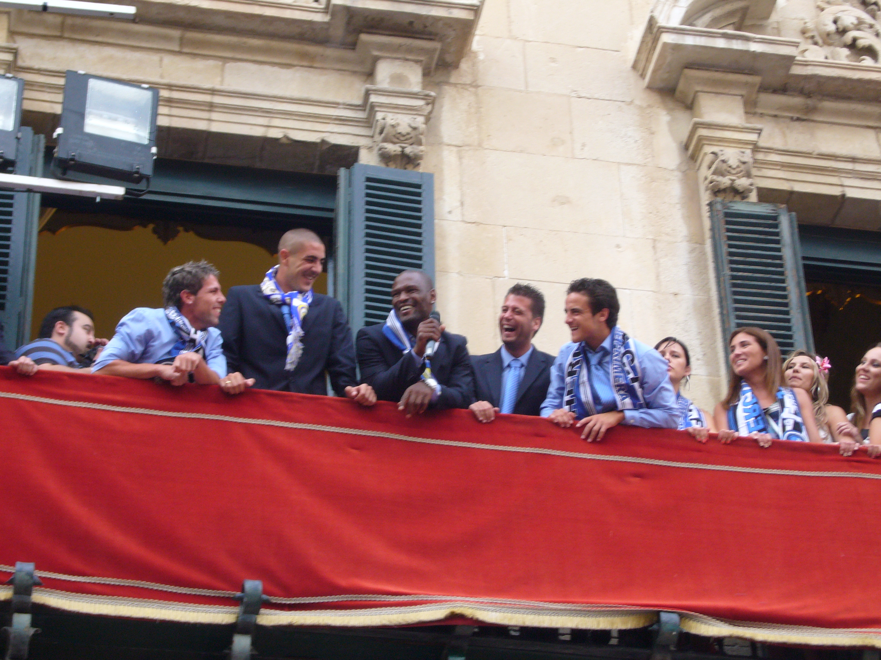 Noe Pamarot (with microphone in hand) on the balcony of the City of Alicante during the celebrations for the rise of Hércules C. F. to First division in 2009/10 season.